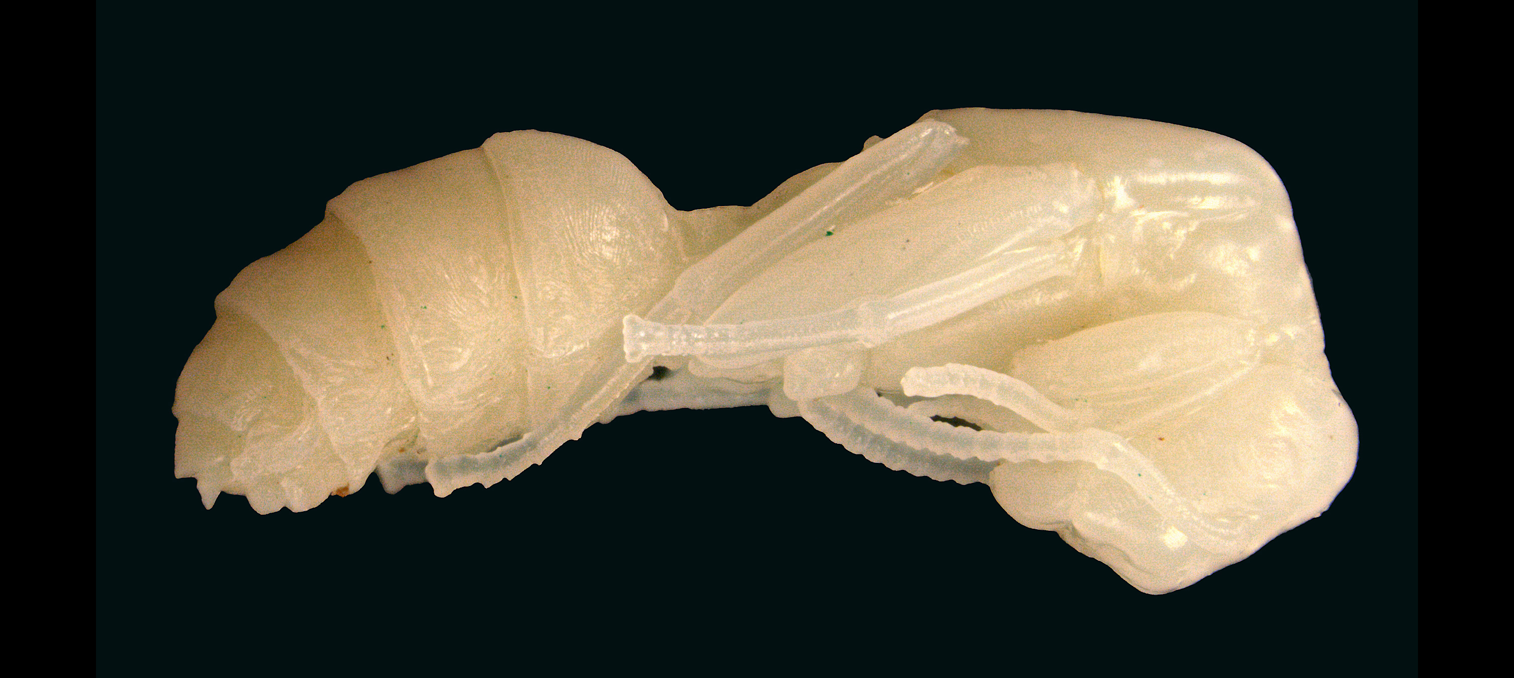 Pupa of Colobopsis explodens found inside natural nest Nest location: Brunei, Temburong, Kuala Belalong Field Studies Centre, 04°33'N, 115°09'E, 60 m a.s.l. Collection date: 10.XI.–5.XII.2015